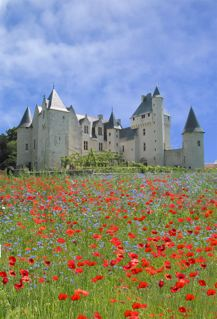 chateau du rivau in summer. Self made Summary chateau du rivau in summer. Self made